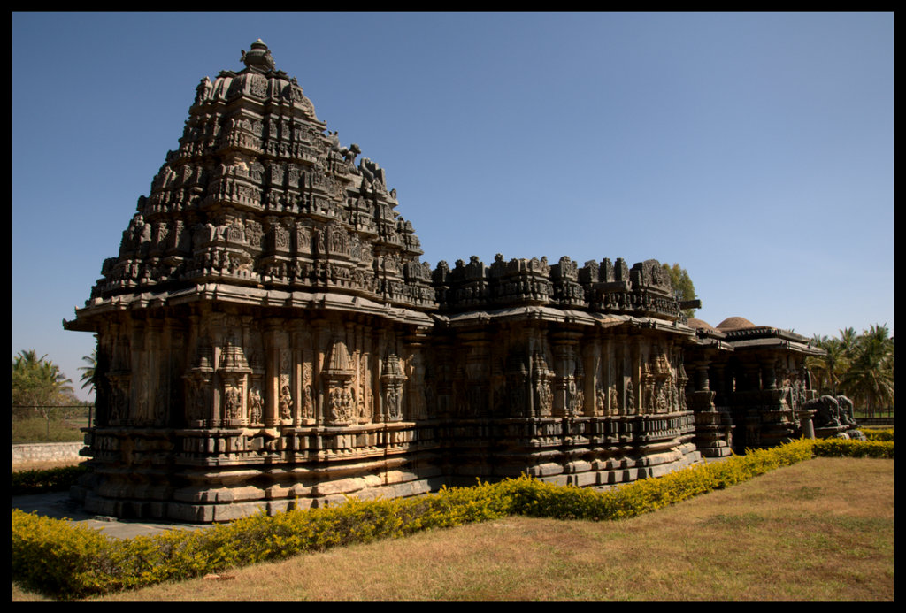 South West view